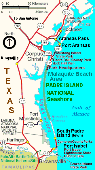 Map of Padre Island — showing the towns and parks on the Gulf Coast Barrier island in Texas. Includes the Padre Island National Seashore, and other Barrier islands: Mustang Island with Mustang Island State Park to the north, and Brazos Island to the south.